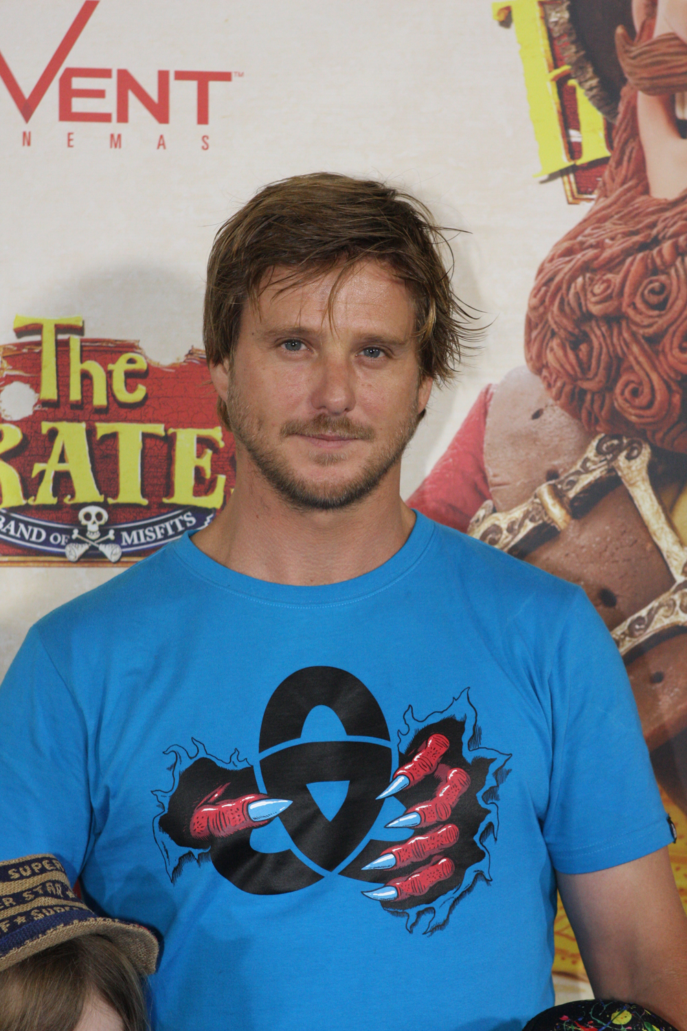 The Pirates! Band of Misfits Premieres In Sydney Australia